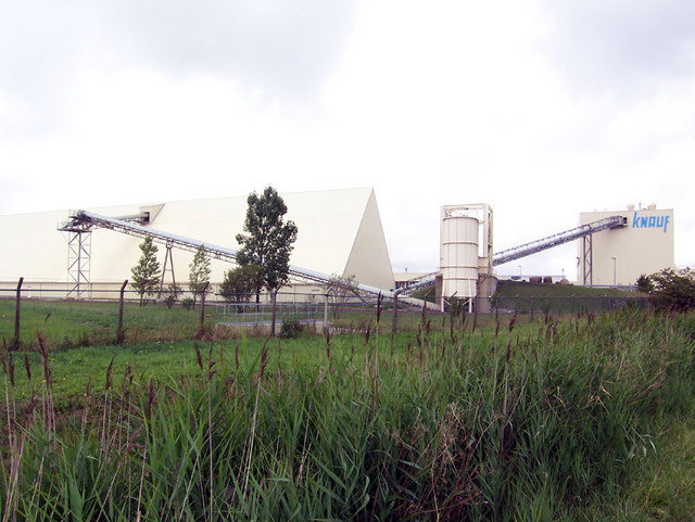 Knauf Plant - Kings Road. This Knauf factory on Kings Road (A1173) Immingham produces Plasterboards, Thermal Laminates and foil backed Plasterboards.